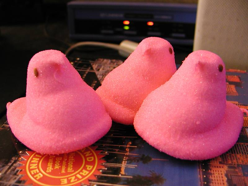 Pink Marshmallow Peeps